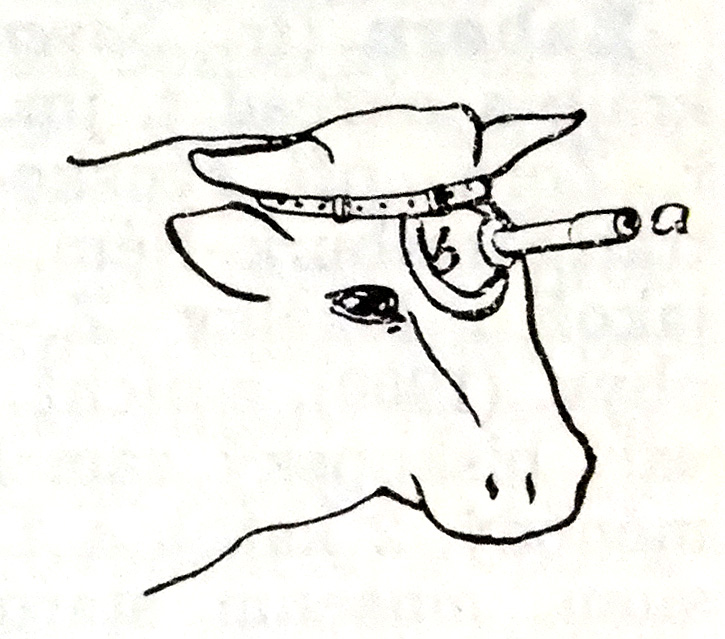 A mask with a captive bolt pistol.